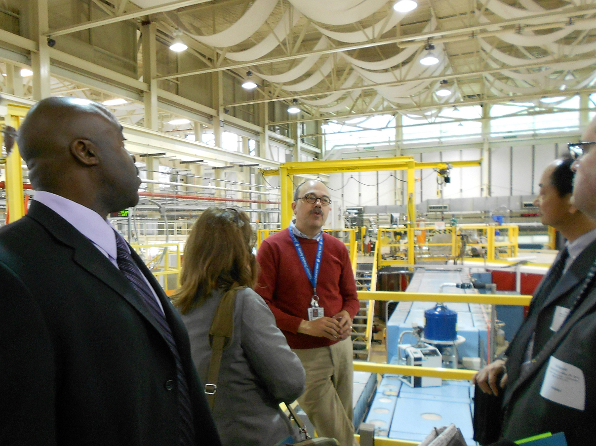 Dr. Dan Neumann (center), of NIST's Center of Neutron Research (NCNR) briefs University of California, Irvine Dean of Engineering Dr. Gregory Washington (far left) and his staff on research capabilities for users of the NCNR. Credit: NIST/A. Eustis Disclaimer: Any mention of commercial products within NIST web pages is for information only; it does not imply recommendation or endorsement by NIST. Use of NIST Information: These World Wide Web pages are provided as a public service by the National Institute of Standards and Technology (NIST). With the exception of material marked as copyrighted, information presented on these pages is considered public information and may be distributed or copied. Use of appropriate byline/photo/image credits is requested.